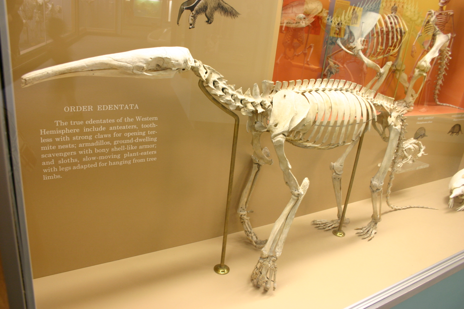 Myrmecophaga tridactyla skeleton